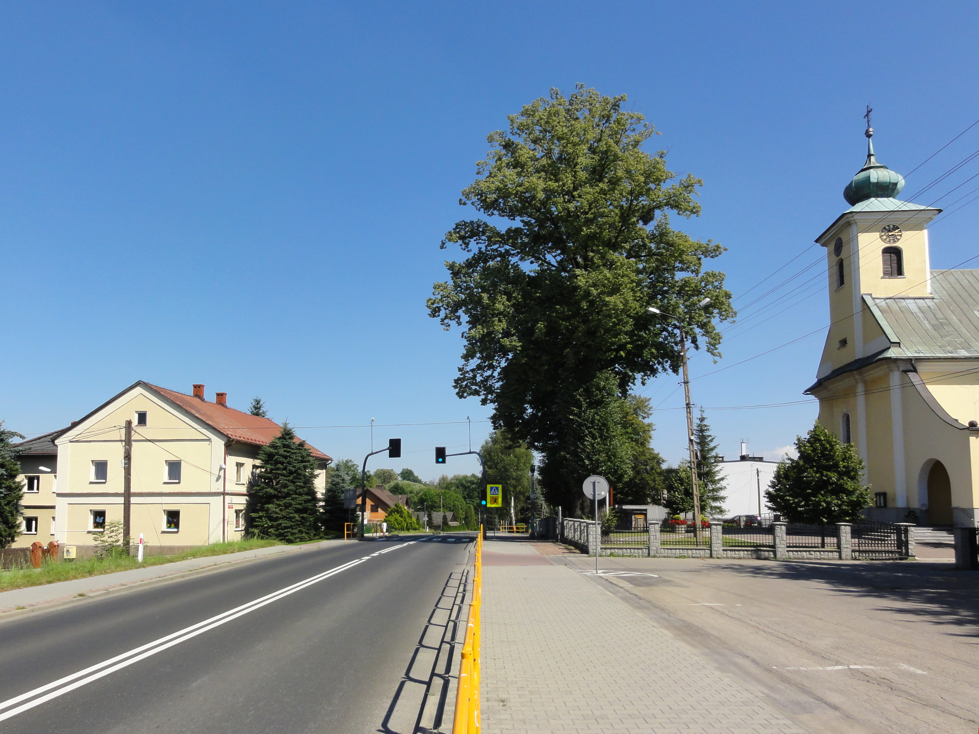 Centrum Bulowice